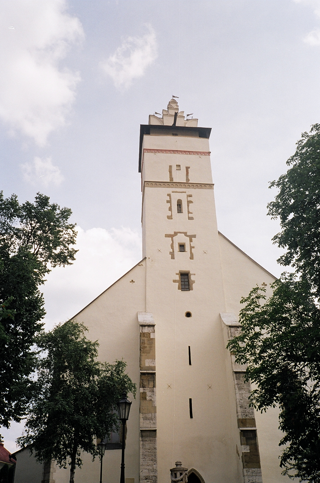 Saint Cross church in Kežmarok